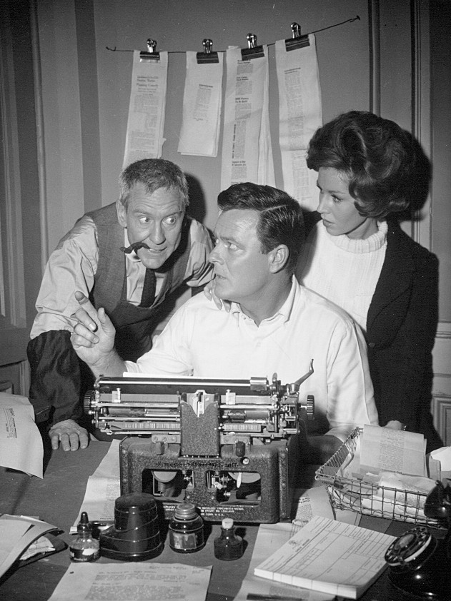 Photo of Burgess Meredith, Robert Sterling and Patricia Crowley in the Twilight Zone episode "Printer's Devil".